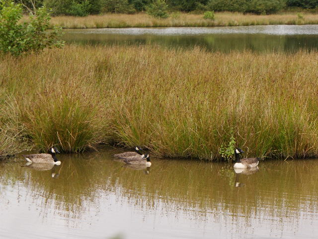 Worgreen Lake, Forest of Dean Small groups of Canada Geese, like this one, can be seen on Worgreen Lake - also known as Woorgreens Lake, which is just north of the main B4226 road that connects Cinderford to Coleford. Worgreen, in days gone by, was an open cast coal mine and the lake is what was left when mining operations finally finished. It is now the naturalised habitat of lots of fish, birds and insects.